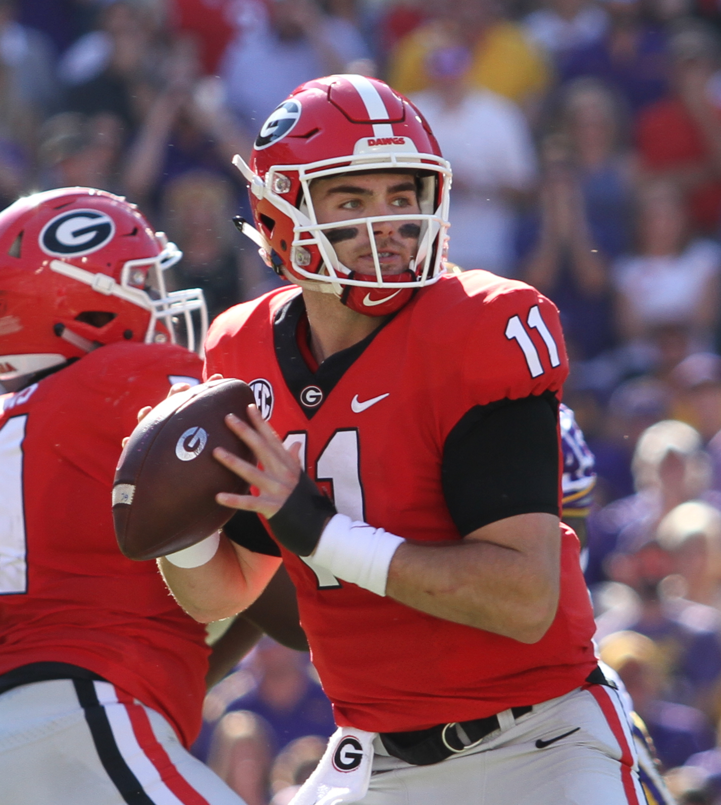 Georgia quarterback Jake Fromm (11) out of the shotgun to pass, Georgia Bulldogs vs LSU Tigers, Football, Tiger Stadium, October 13, 2018, Baton Rouge, Louisiana, Tammy Anthony Baker, Photographer